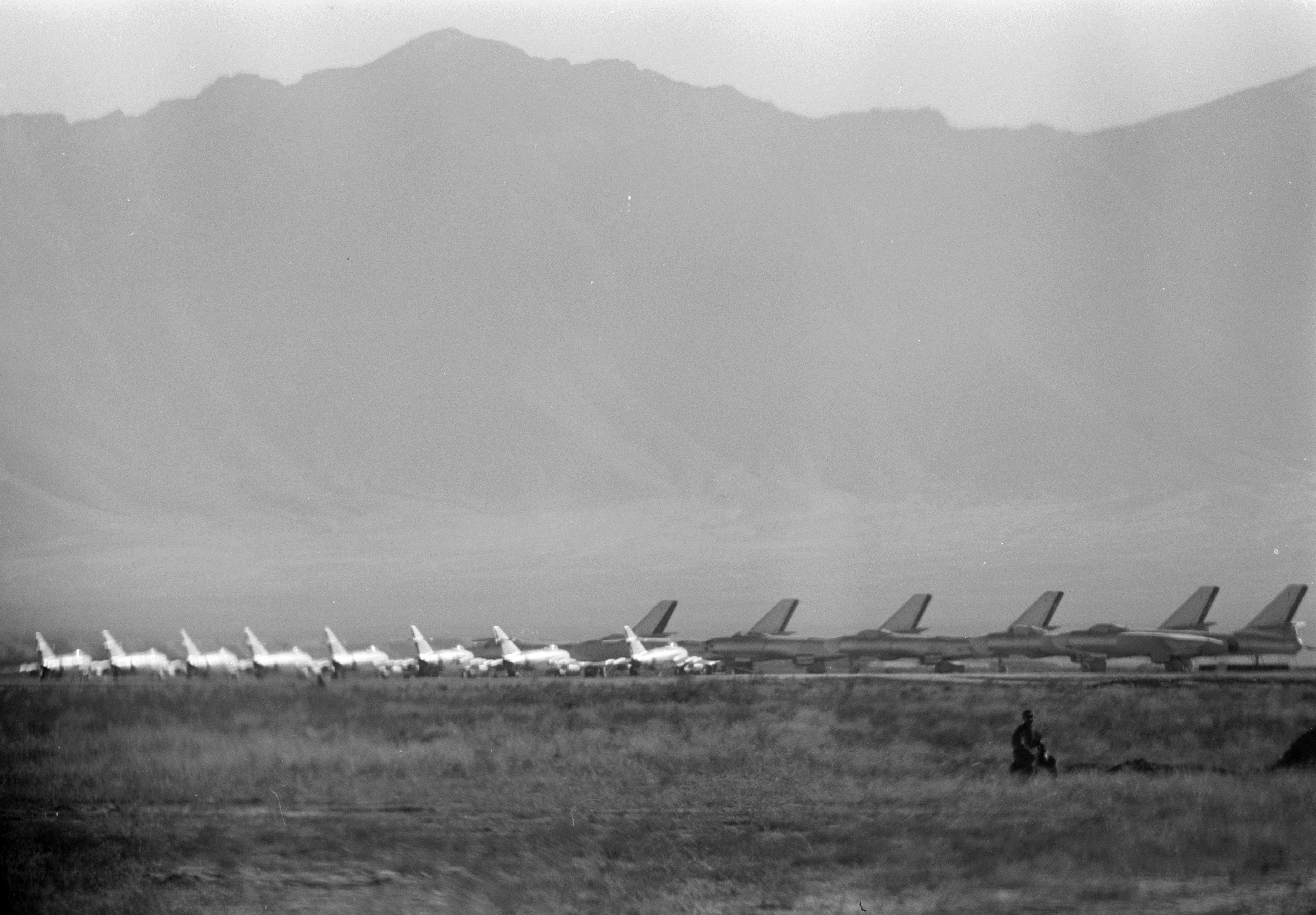 Afghan Air Force Mikoyan-Gurevich MiG-15 fighters and Ilyushin Il-28 bombers at Kabul, Afghanistan, during the visit of the U.S. president Dwight D. Eisenhower, 9-14 December 1959.